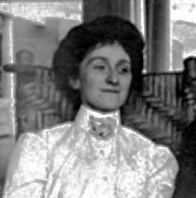 Miss Sarah Byrd Askew and Mr. Henry Eduard Legler in Atlantic City, New Jersey by FW Faxon